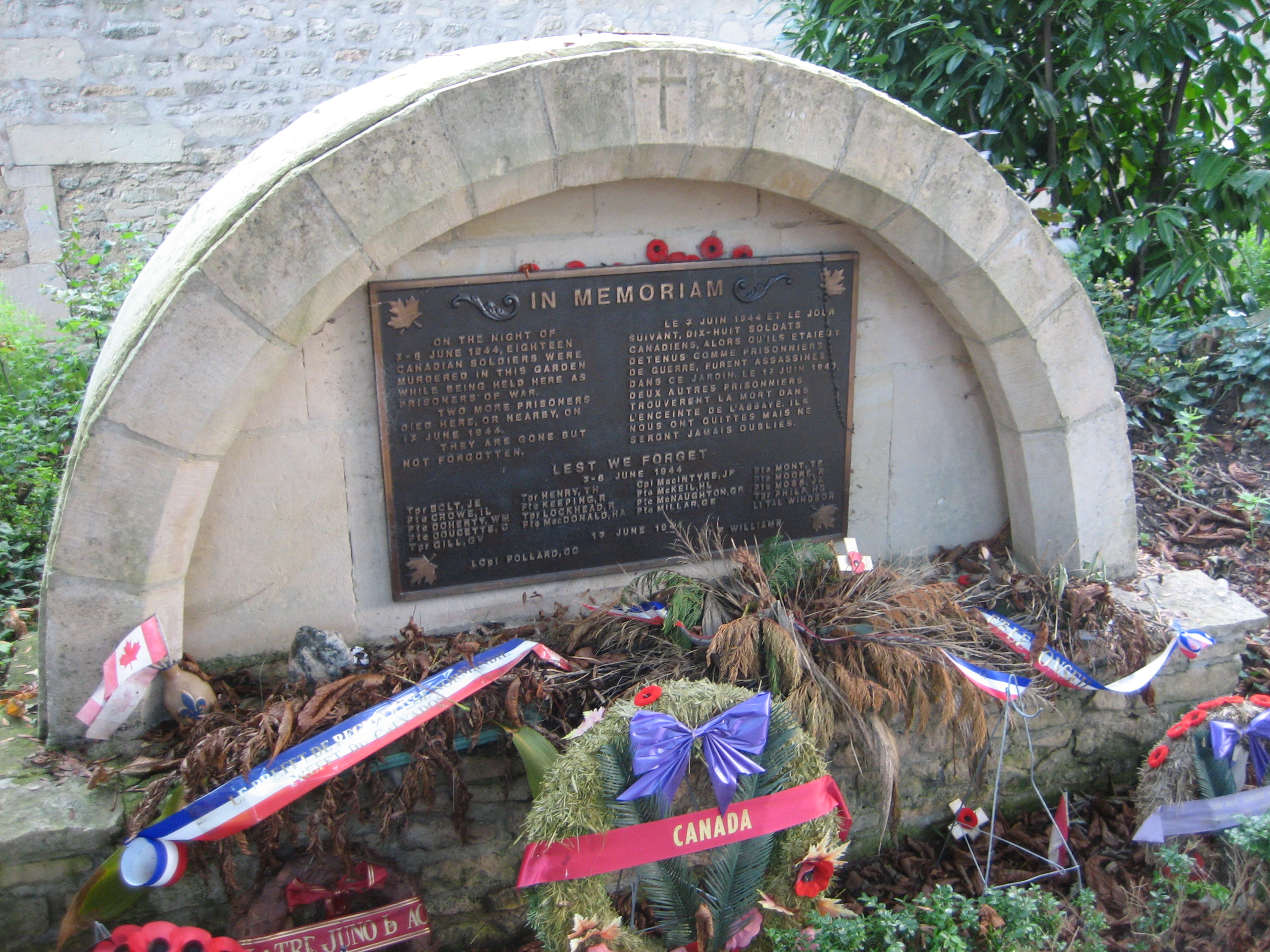 Memorial to Canadian prisoners of war executed in the garden of the Ardenne Abbey, in the Calvados region of Normandy in France.